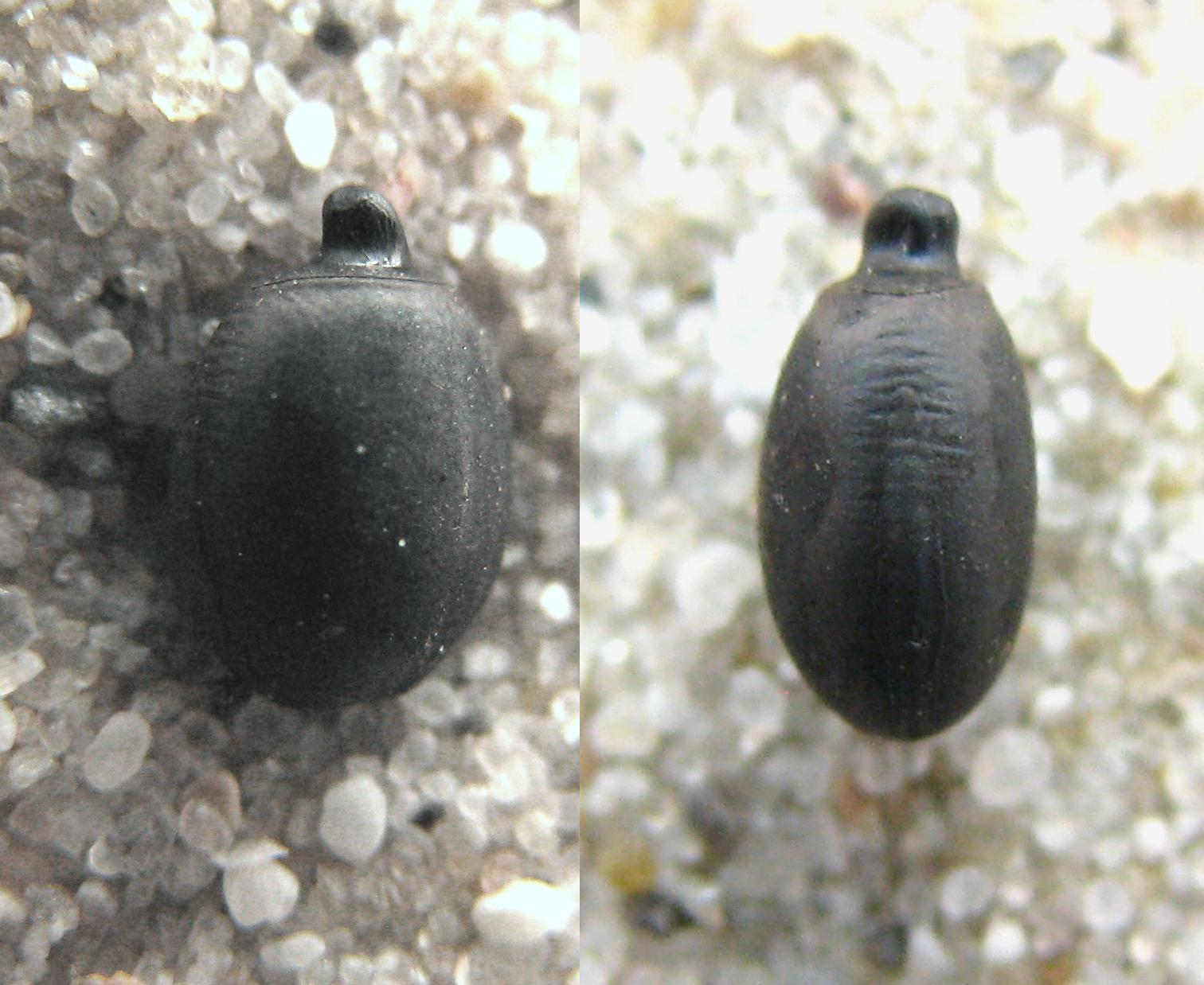 egg from Khao Stick Insect (Phaenopharos khaoyaiensis), lateral view left and dorsal view right